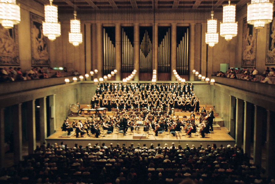 Herkulessaal Concert Hall in the Residence, Munich Concert of Choir and Orchestra of the Munich University of Applied Sciences